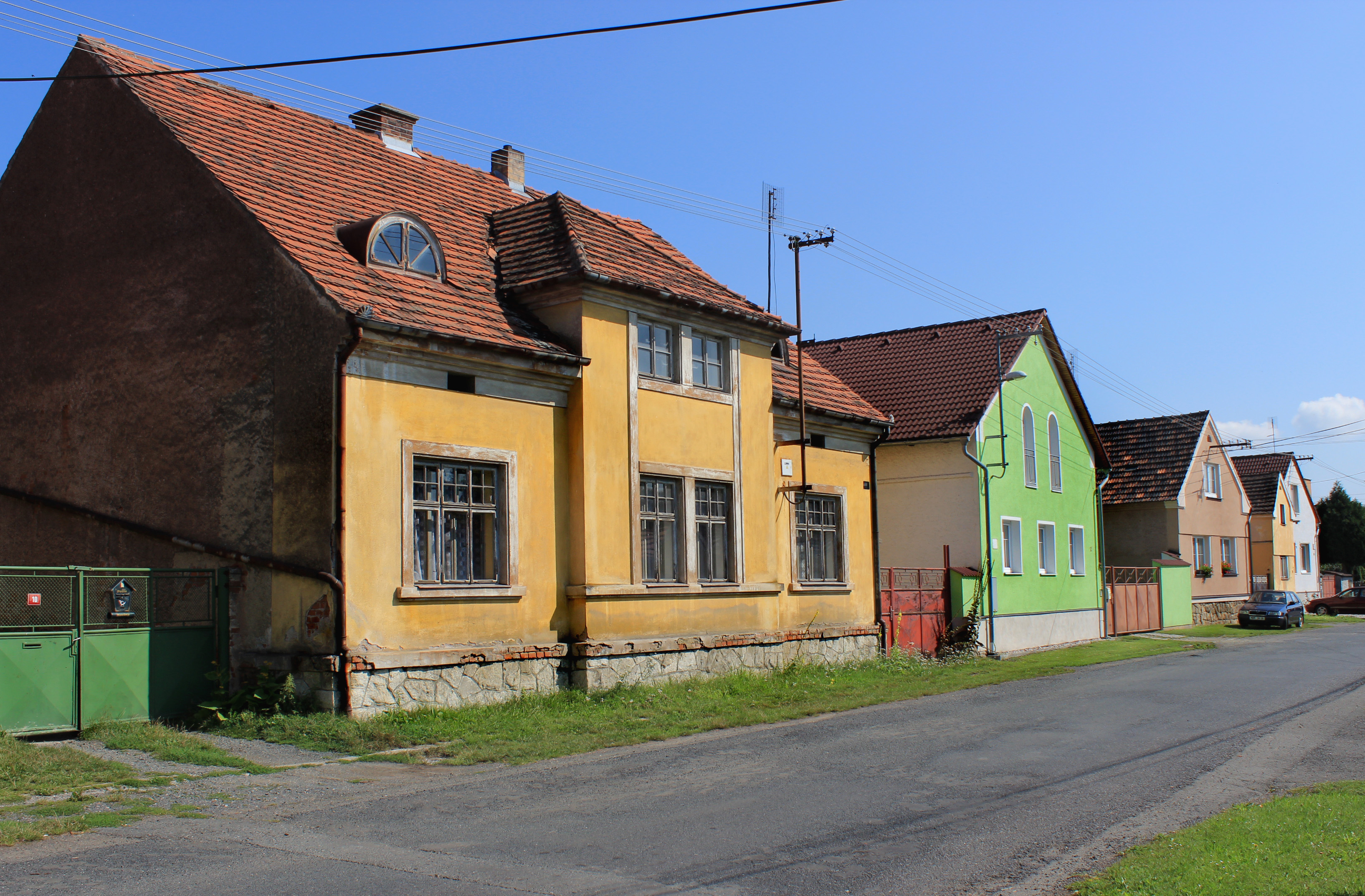 Common in Křenovy, Czech Republic.